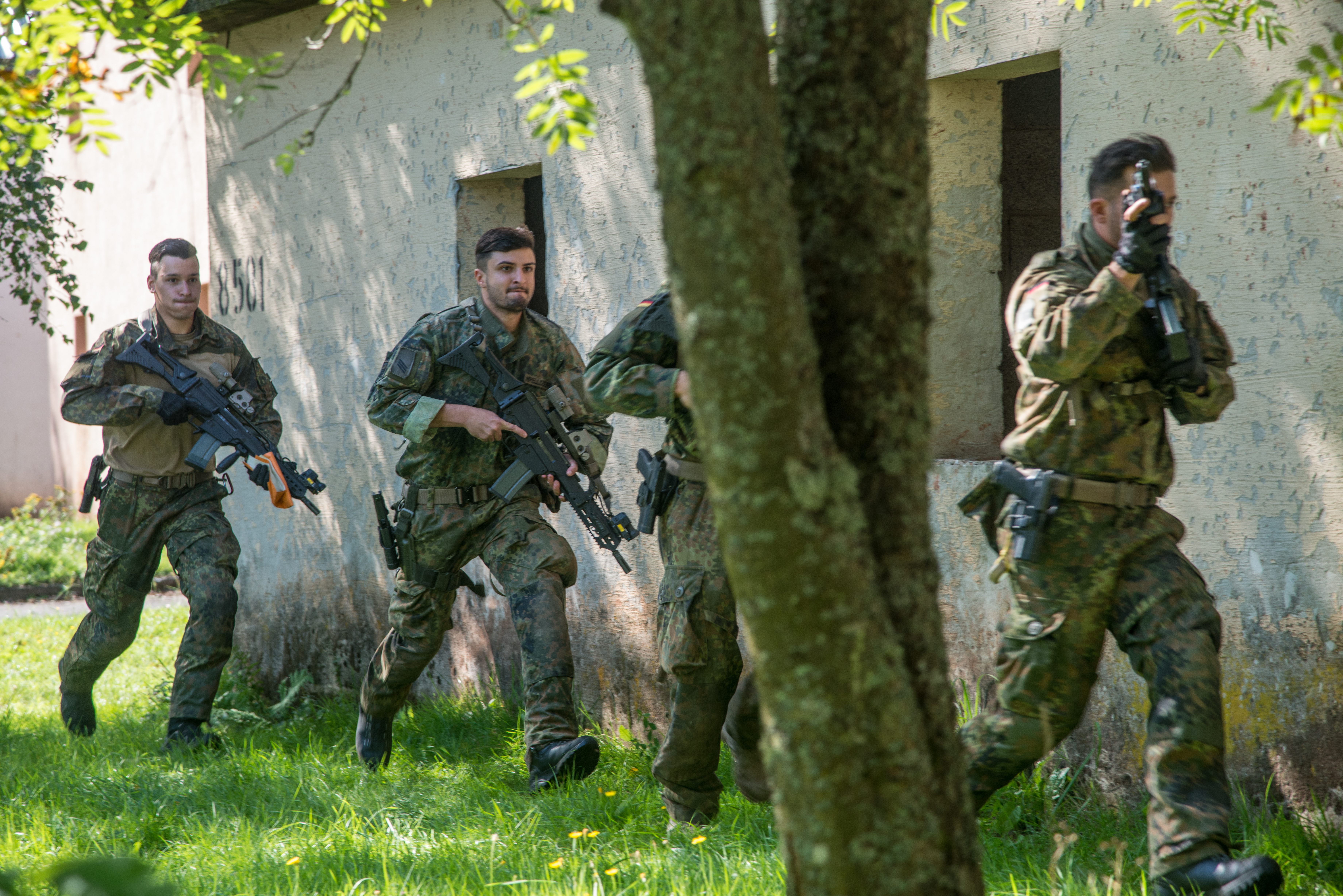 German Paratroopers assigned to Fallschirmjägerregiment 26, Zweibrücken, Germany, train at the Urban Operations Site, Baumholder Local Training Area, Baumholder, Germany, Aug. 23, 2017. Purpose of the training was to learn and practice proper movement techniques in an urban environment in preparation of an upcoming live fire exercise.